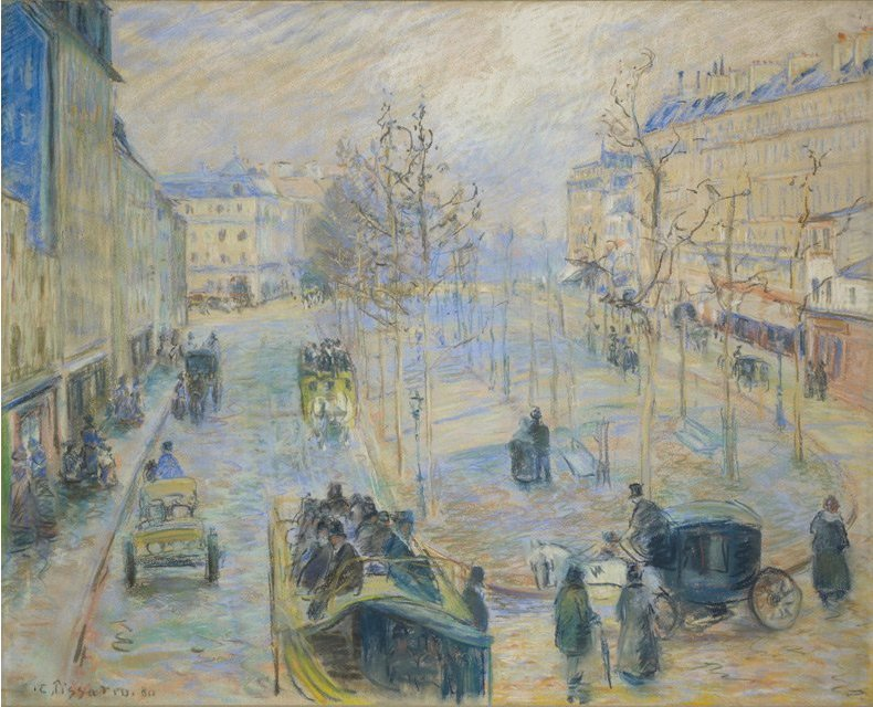 Boulevard de Rochechouart by Camille Pissarro, 1880. Pastel on beige wove paper, Sterling and Francine Clark Art Institute